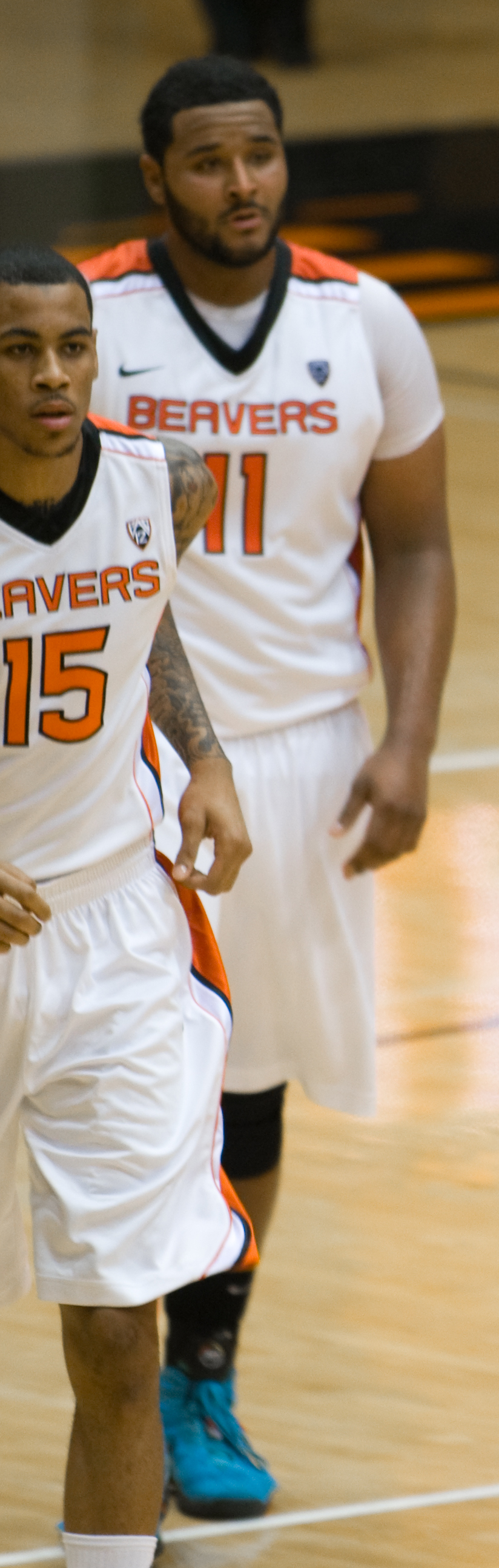 Oregon State Beavers Basketball vs. Lewis and Clark